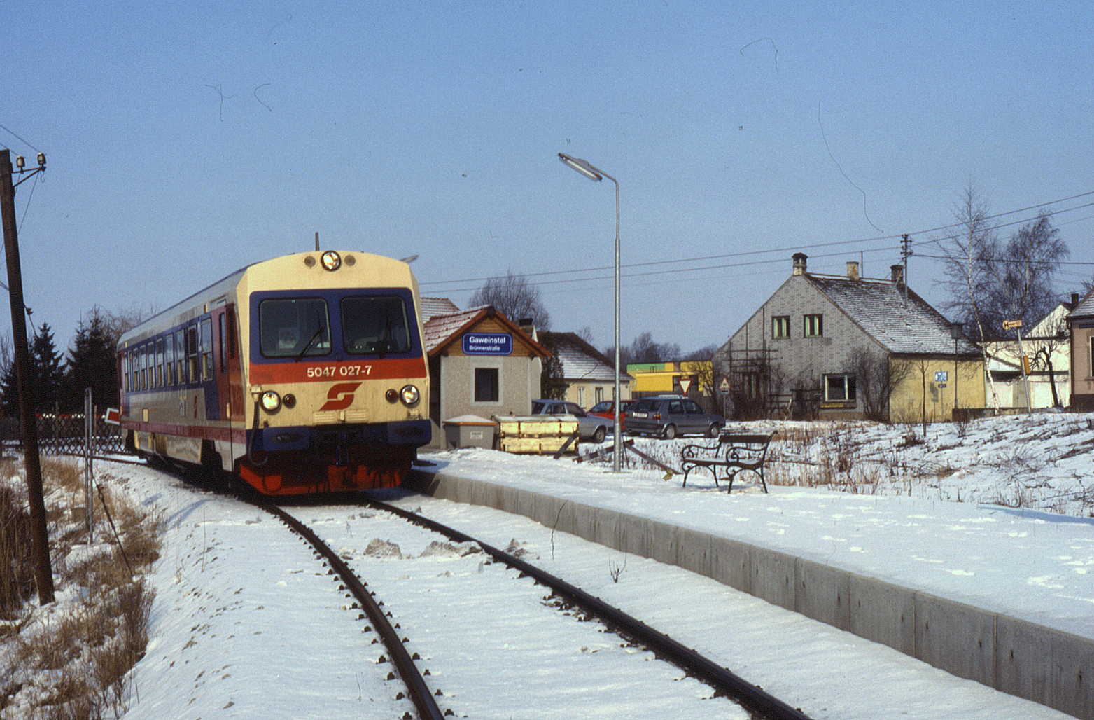 5047.027 seen at Gaweinstal-Brünnerstraße on 15 February 1991 prior to departing on train 7373, Gaweinstal-Brünnerstraße to Gänserndorf.